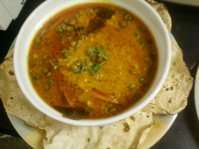 Indian cuisine made of turmeric Curcuma longa.